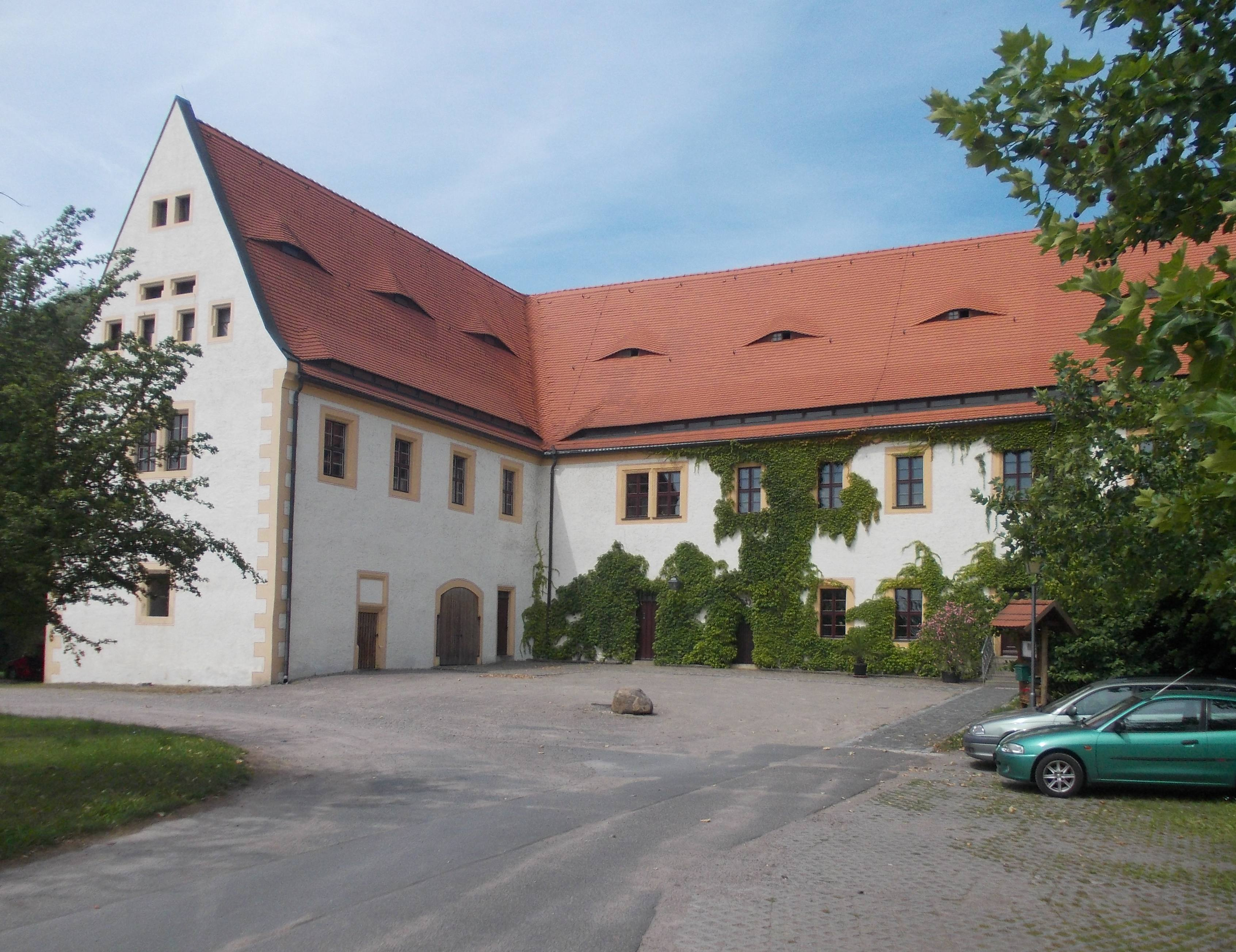 Old Castle in Hof (Naundorf, Nordsachsen district, Saxony)